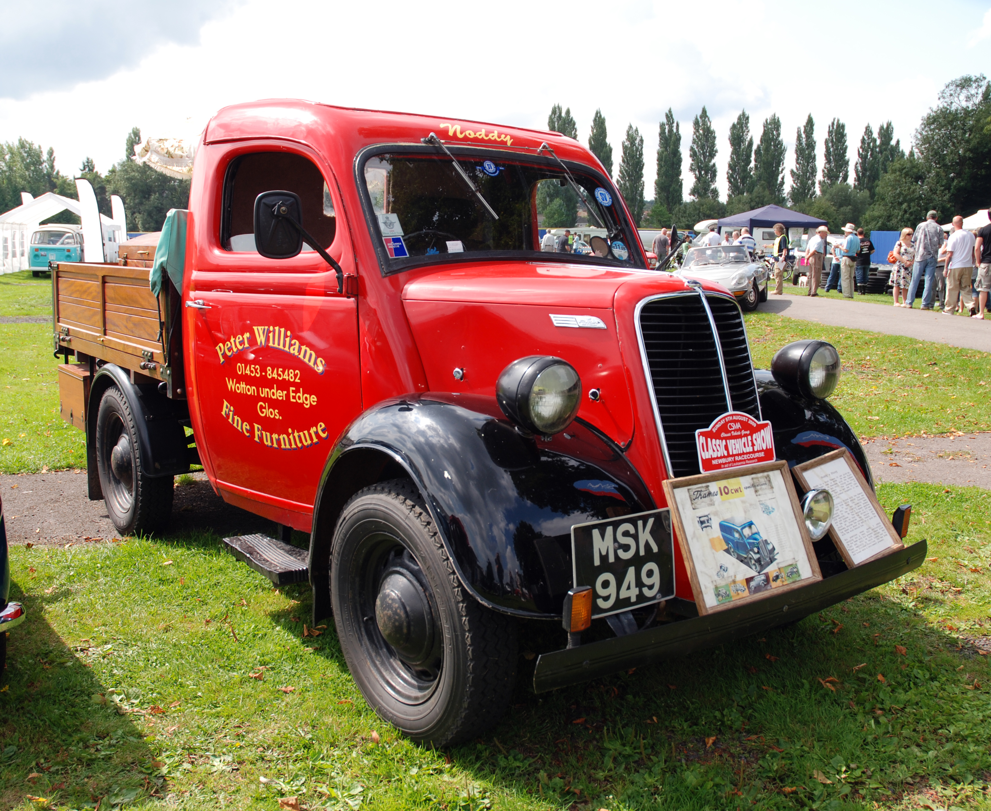 Newbury,Aug 2009